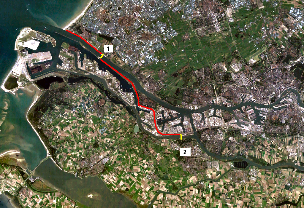 Europoortkering based on :File:Satellite image of Europoort, Netherlands (4.25E Screenshot from NASA's World Wind.51.90N).png